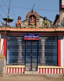 Kumbakonam elanthamara vinayakar temple கும்பகோணம் எலந்த மர விநாயகர் கோயில்